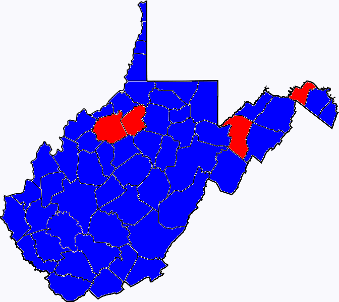 2002 West Virginia Senate results by county